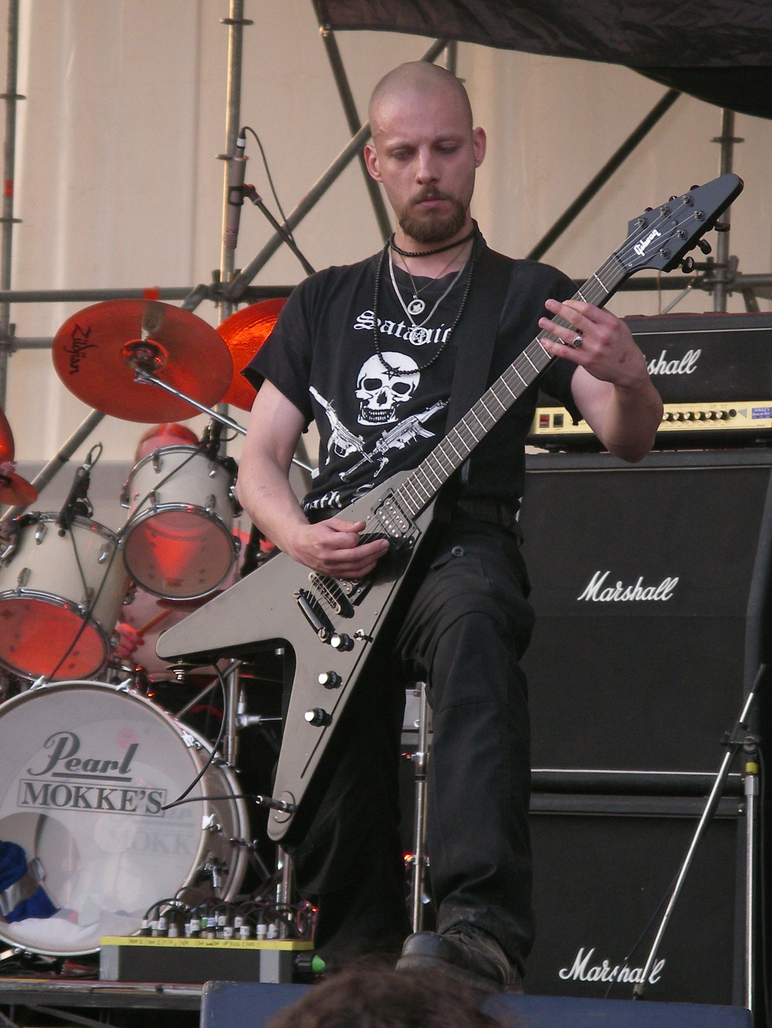 Set Teitan live with Dissection in 2005